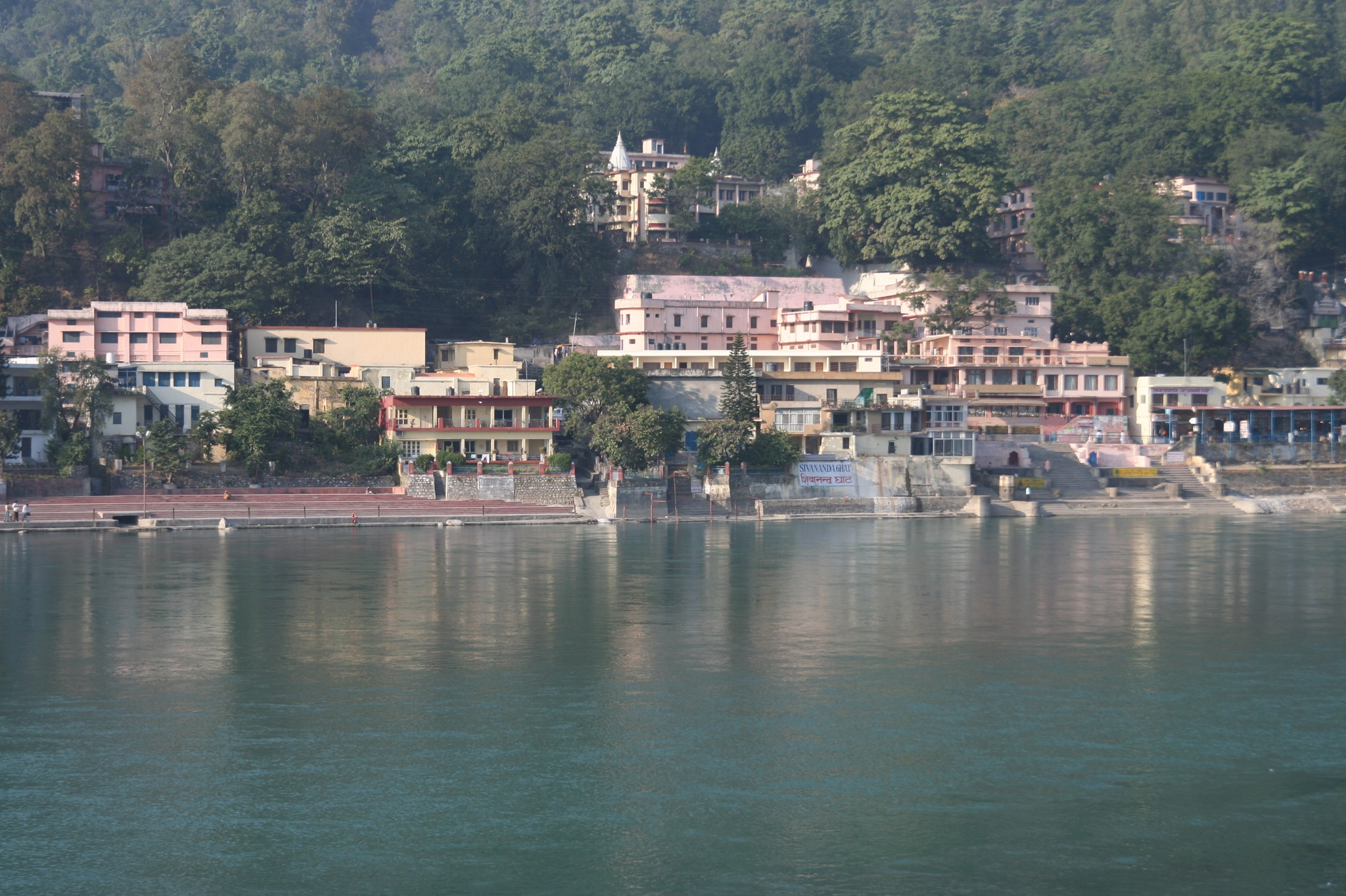 Sivananda Ashram on the top, with Sivananda Kutir, of Swami Sivananda, below, right on Sivananda Ghat, near Ram Jhula, Rishikesh.